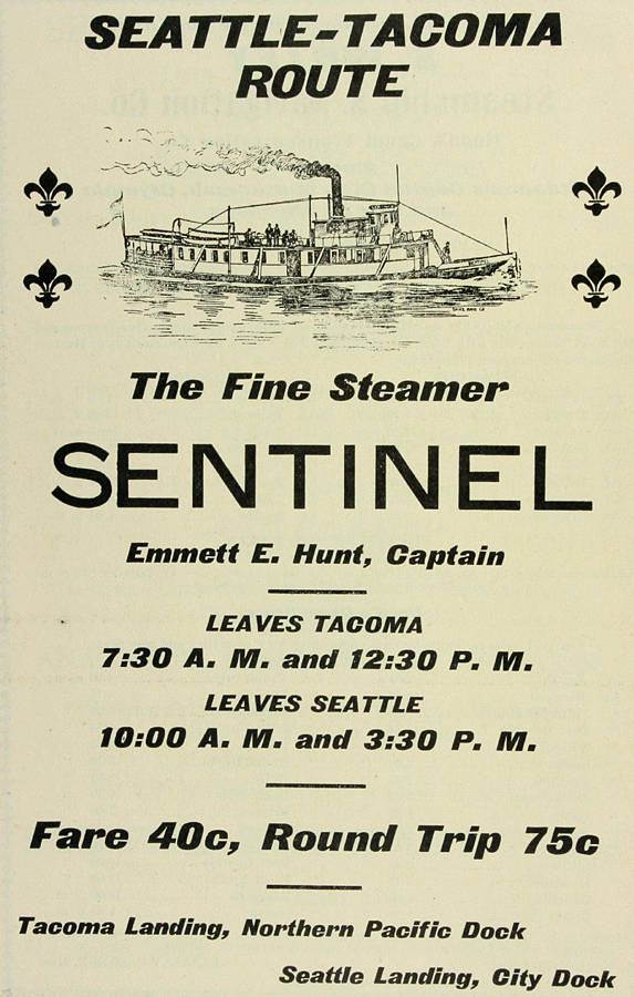 Advertisement for steamboat Sentinel, published in Polk's directory for Seattle, 1901.